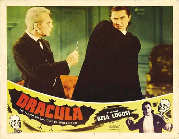 Colored lobby card for the 1951 Realart re-release of the 1931 film Dracula, featuring Bela Lugosi and Edward Van Sloan. This image is assumed to be in the public domain, as no copyright notice is in evidence.